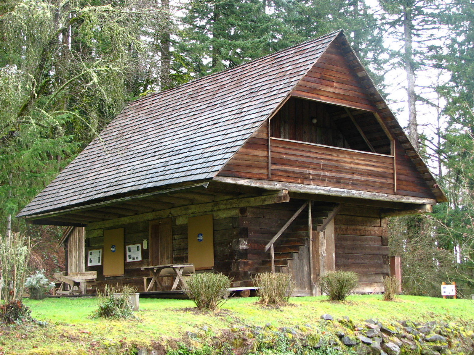 The historic Horace Baker Log Cabin (built ca. 1856), located near Carver, Oregon, United States, is listed on the US National Register of Historic Places. It is currently operated as a museum.